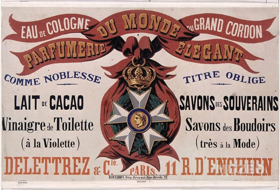 Eau de Cologne du Grand Cordon. Parfumerie du monde élégant. Poster for Delettrez & Cie, a parisian perfume house, designed by Rouchon.